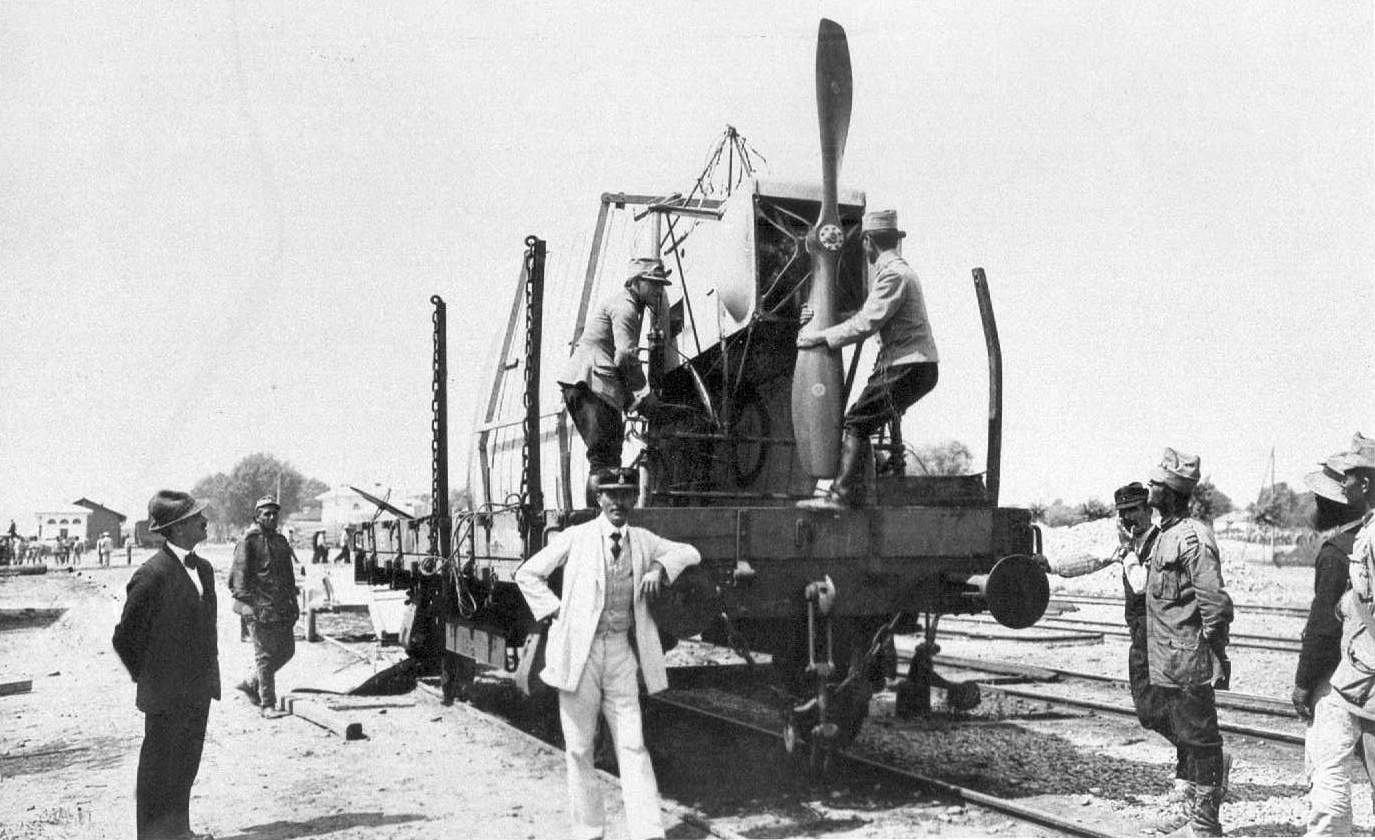 A unloading of a Blériot plane of the Romanian military during the Second Balkan War, 1913